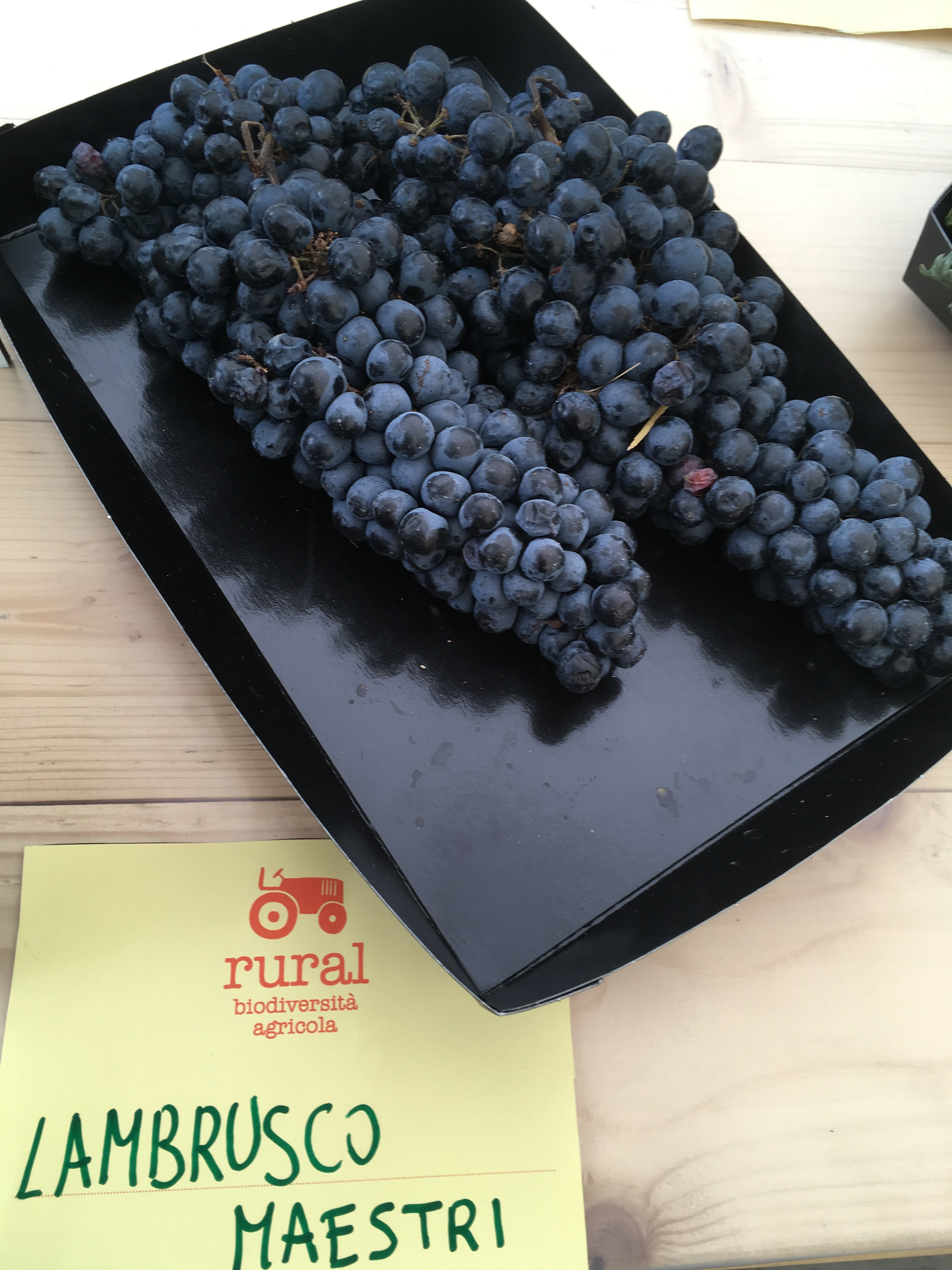 Lambrusco Maestri grapes at the Rural Festival, Gaiole in Chianti, Tuscany, Italy, 17–18 September 2016